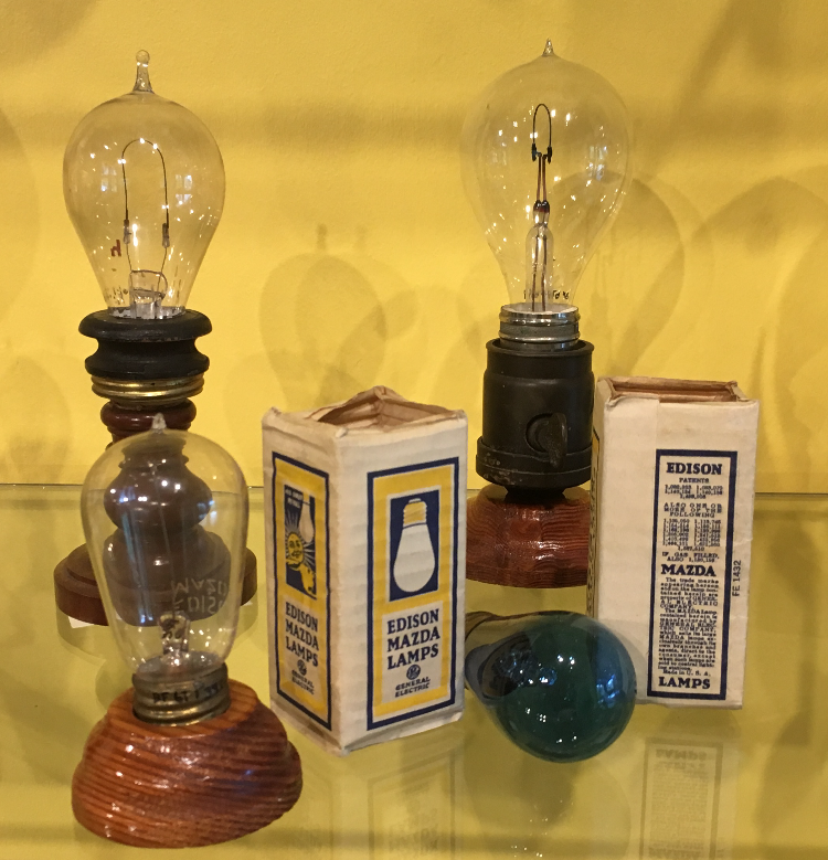 Mazda brand bulbs and packaging at the Edison Ford Winter Estates Museum